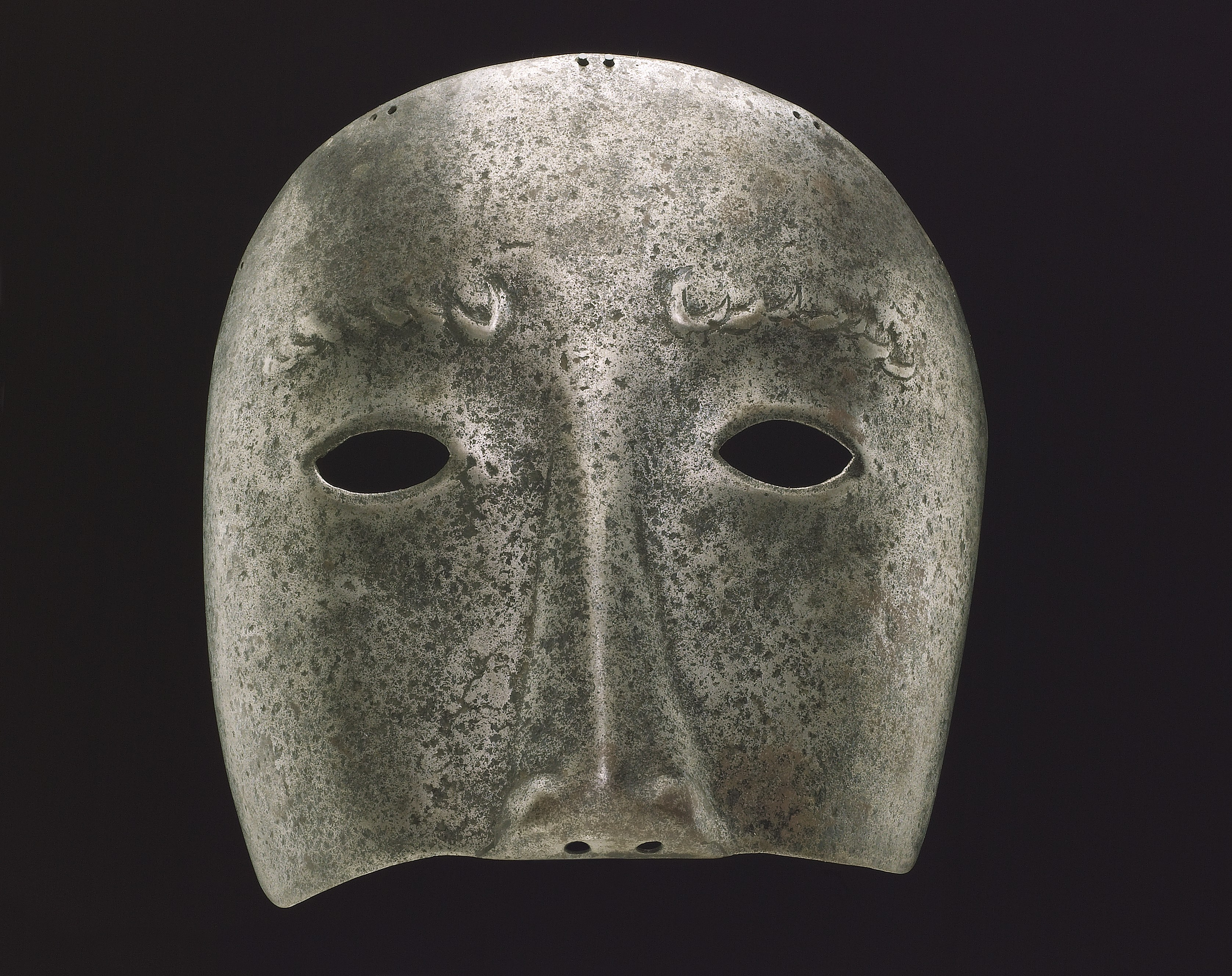 Executioner's mask, steel, said to be Portugese, 1501-1800. Wellcome Images